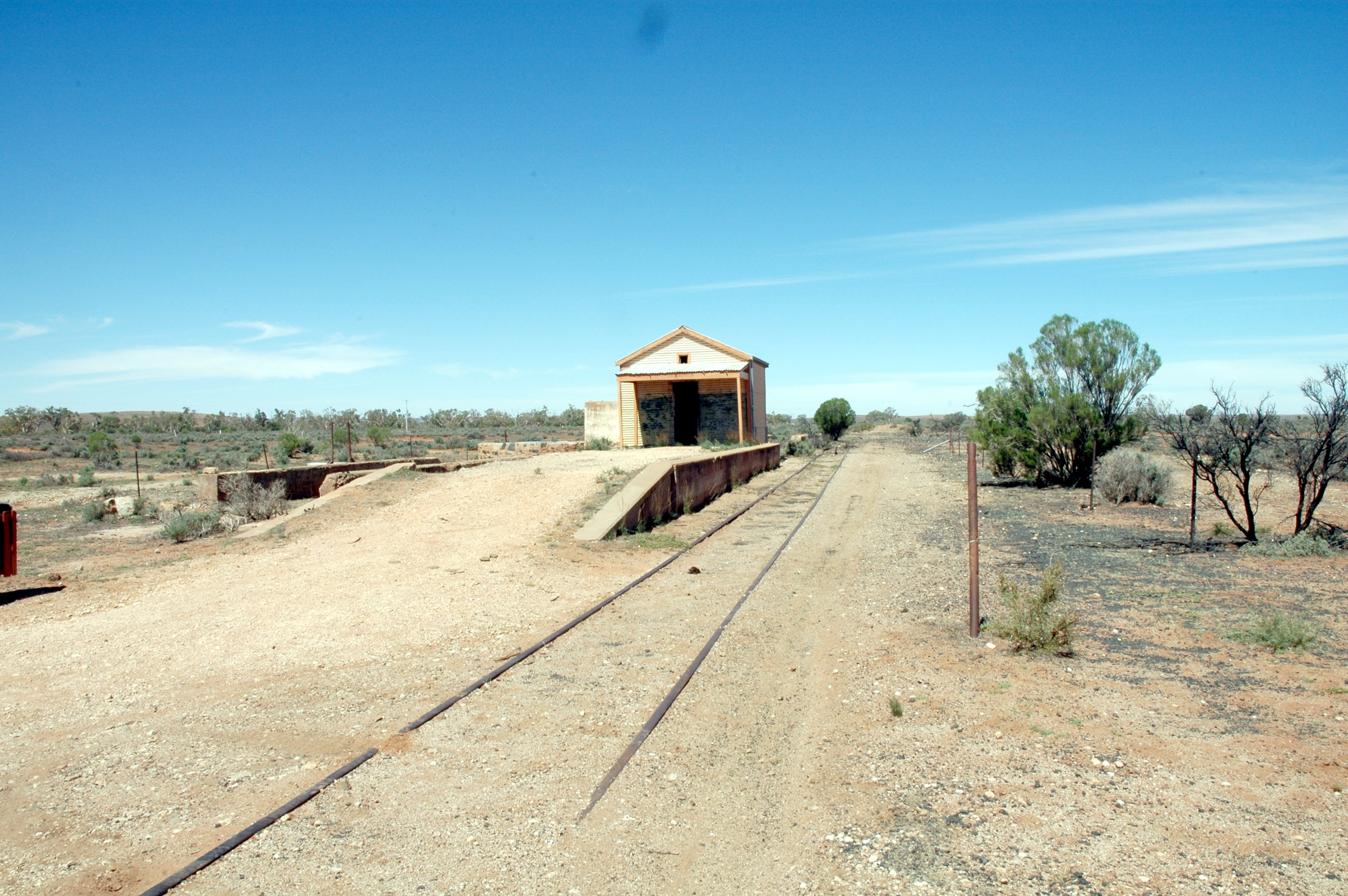 Railway platform, defunct Silverton Tramway, Silverton New South Wales Australia